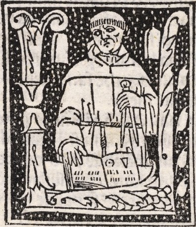 Woodcut of Luca Pacioli used in the Summa de arithmetica